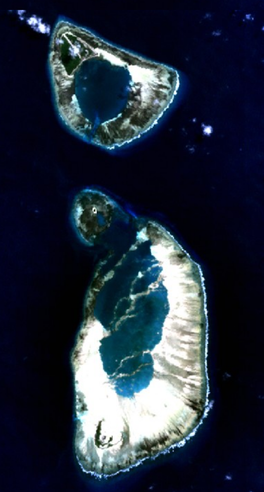 NASA World Wind screenshot (two screenshots combined north-south) of Alphonse Group — in the Outer Islands (Coralline Seychelles) coral archipelago of the Seychelles in the western Indian Ocean.